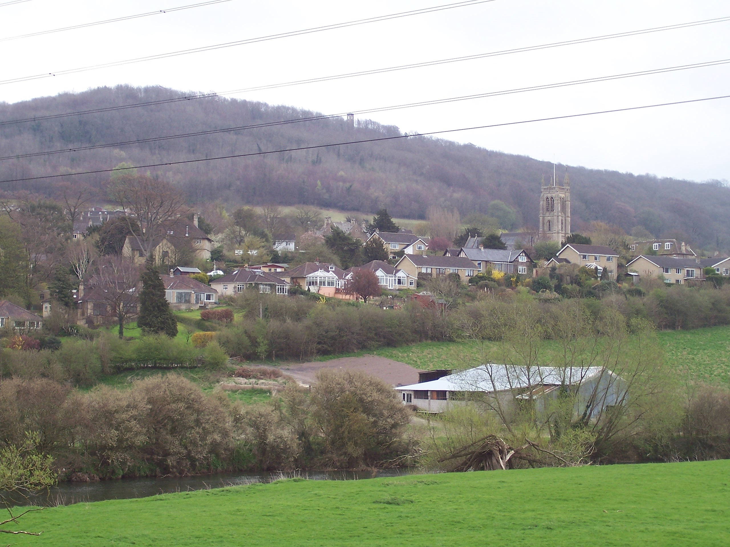 View over Bathford, Somerset